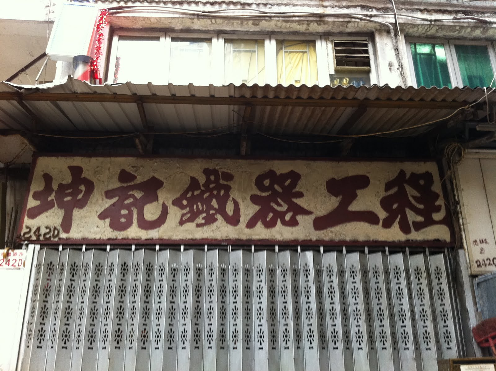 德輔道西, Sai Yuen Lane, Des Voeux Road West, Sai Ying Pun, Hong Kong